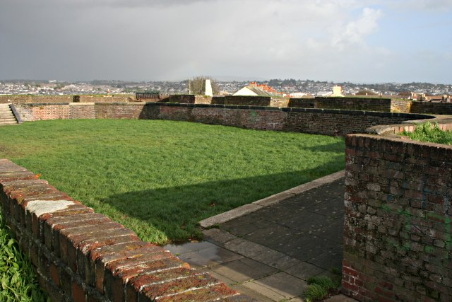 The Blockhouse: Inside the Redoubt This is the inside of the Mount Pleasant Redoubt, built on a high point as a gun emplacement around 1780 to defend the new dockyard. It was used until the 1860's then was abandoned until the Second World War when it was again used as a gun emplacement to fire against enemy aircraft.